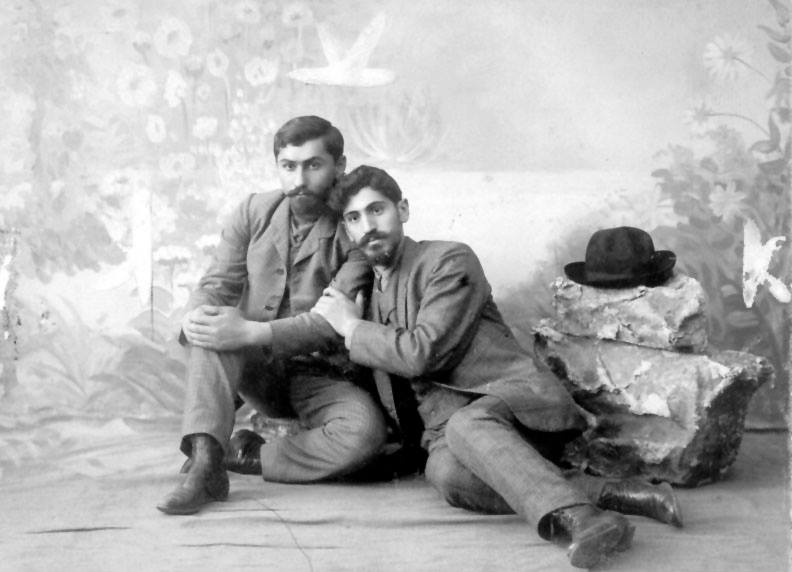 Drastamat Kanayan and Martiros Saryan, both were good faithful friends.